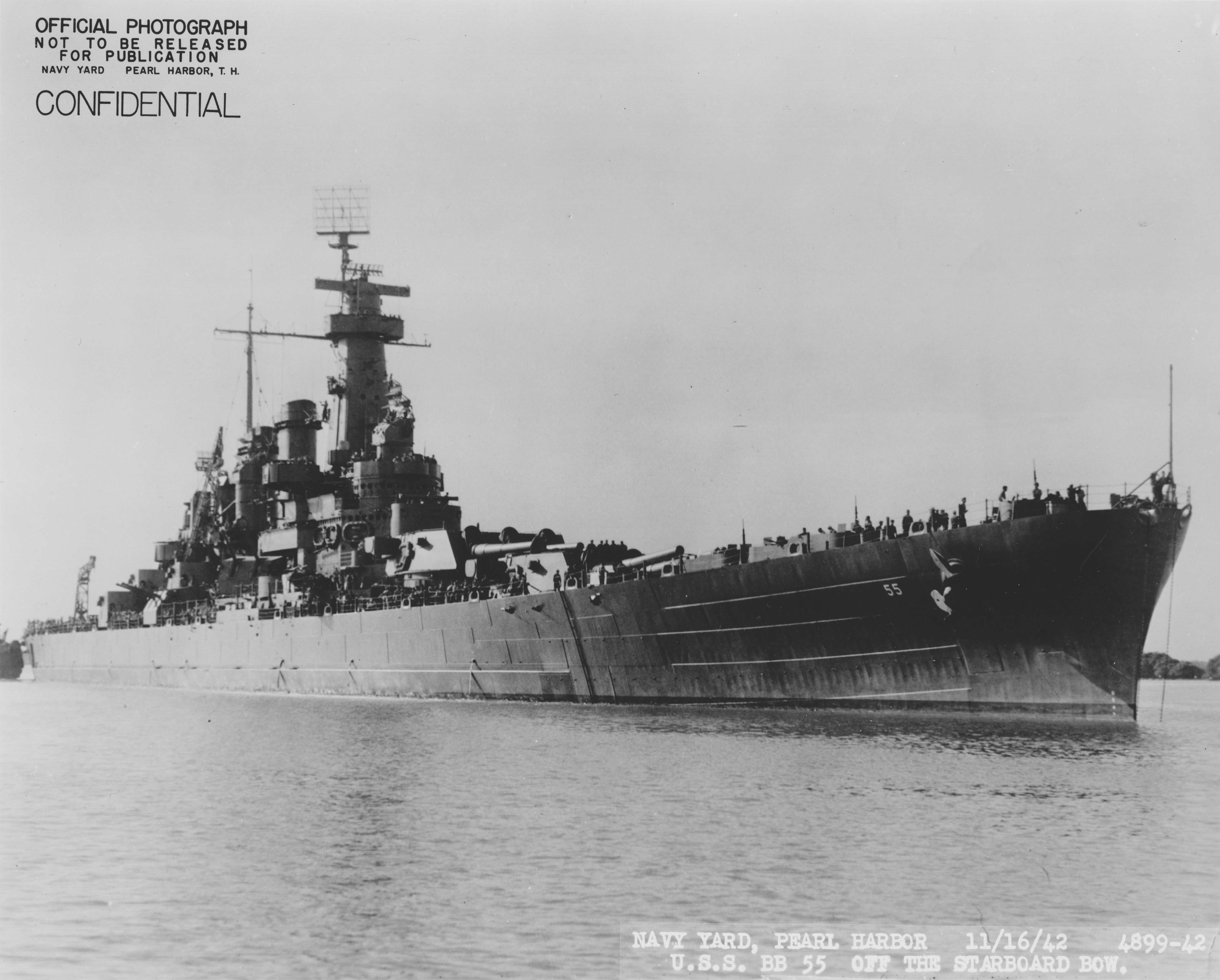 Front starboard view of the USS North Carolina in Pearl Harbor in November 1942. Box: 19LCM, BB-55 to BB-56; Folder BS 72478-72485 19LCM-BB55-4899-42